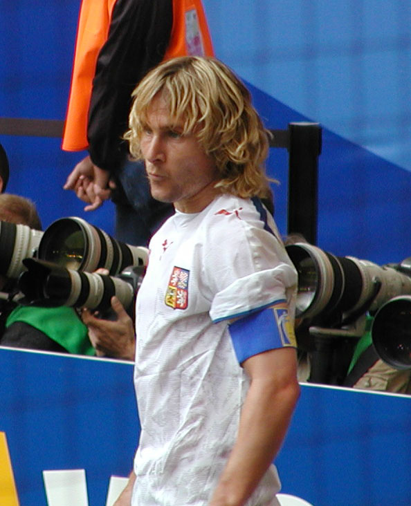 Pavel Nedved, 2006 FIFA World Cup.